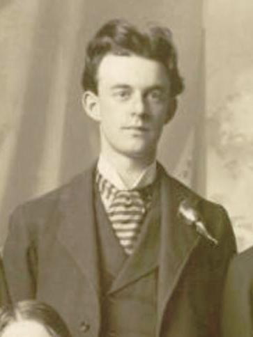 Photo of John J. McClellan, while he taught music at LDS College. McClellan served as the chief organist of the organ in the Salt Lake Tabernacle from 1900 to 1925.